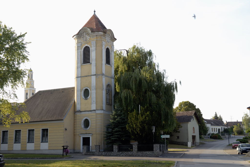 The old parish church of Platt, Lower Austria. The tower of the new church can be seen in the background